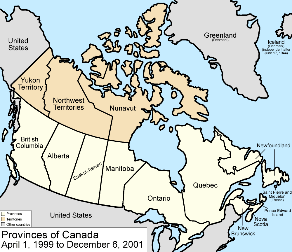 Map of the provinces and territories of Canada as they were between 1999 and 2001. On April 1, 1999, Nunavut was split from the Northwest Territories. On December 6, 2001, Newfoundland was renamed Newfoundland and Labrador.